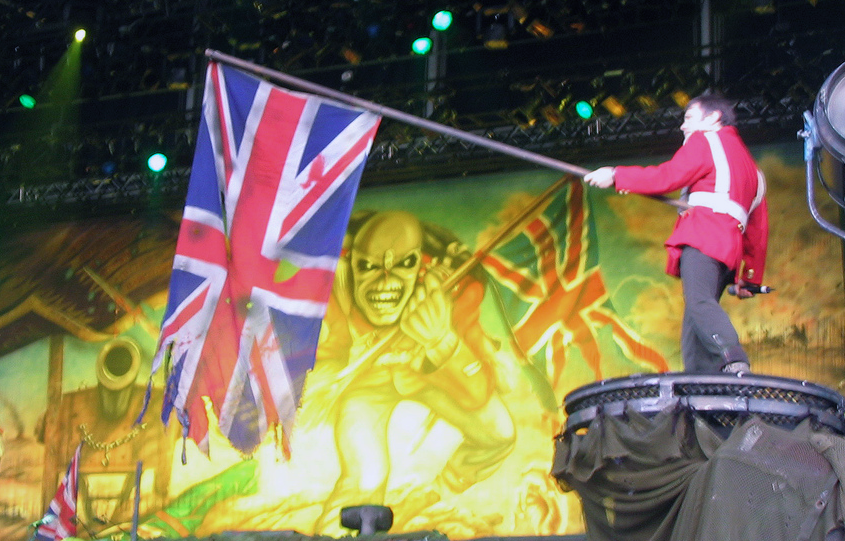 Bruce Dickinson waving the Union Flag during The Trooper.